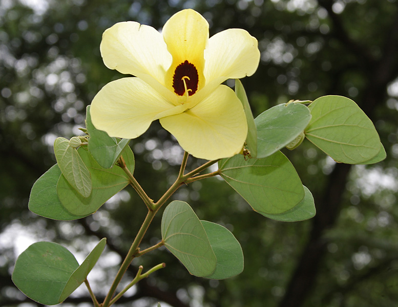 Yellow Bauhinia,Yellow Bell Orchid Tree, Vanasampige, Tiruvatti or Kolakattai mandarai Bauhinia tomentosa in Hyderabad , India.